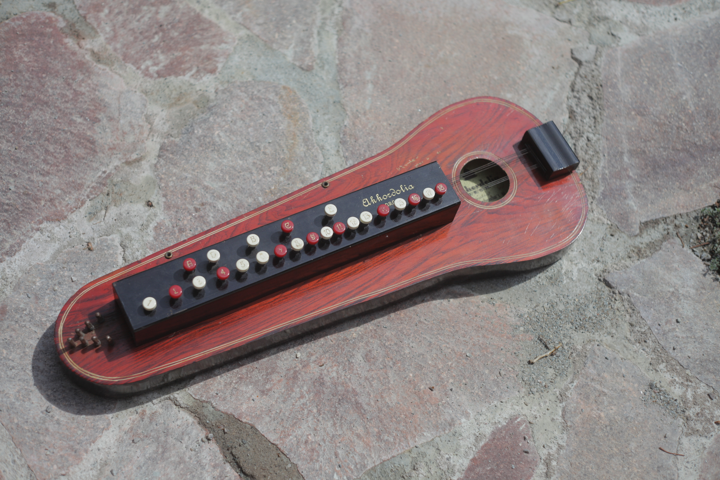 Akkordolia produced by Otto Teller in Klingenthal / Germany around 1935